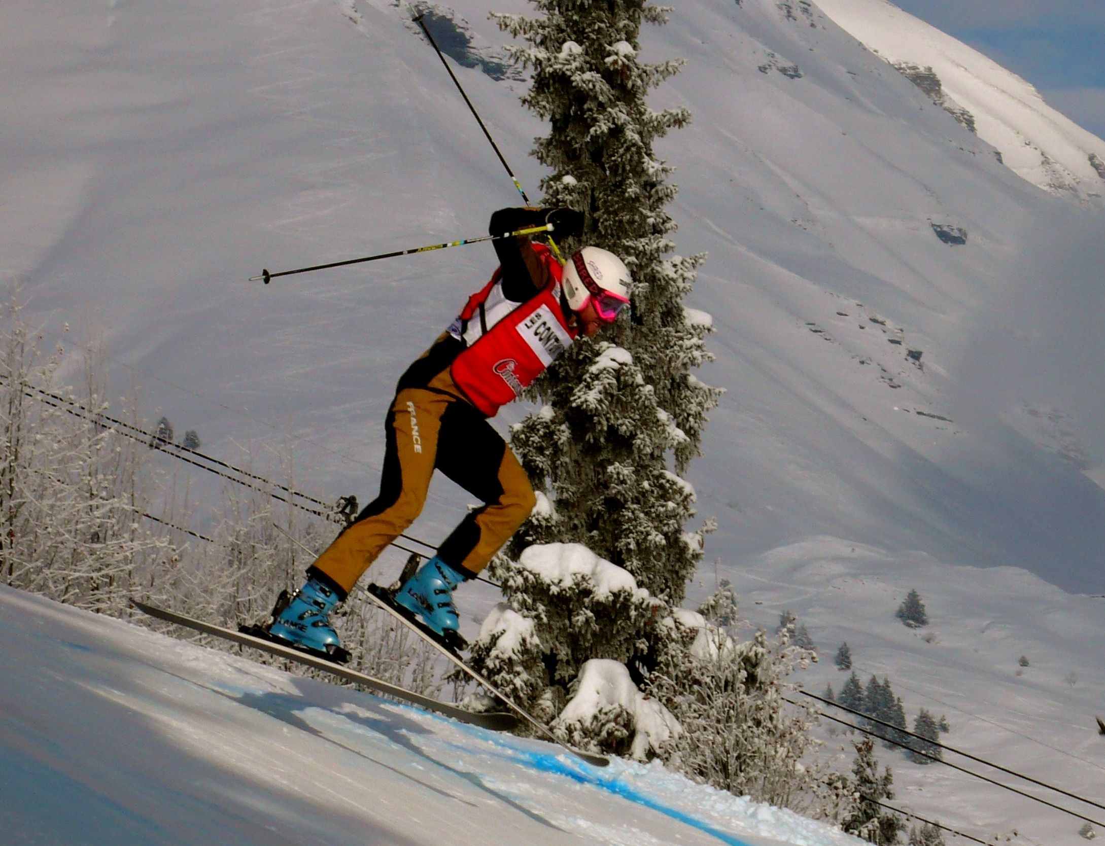 Xavier Kuhn, 1/8 final Ski Cross World Cup, Les Contamines-Montjoie